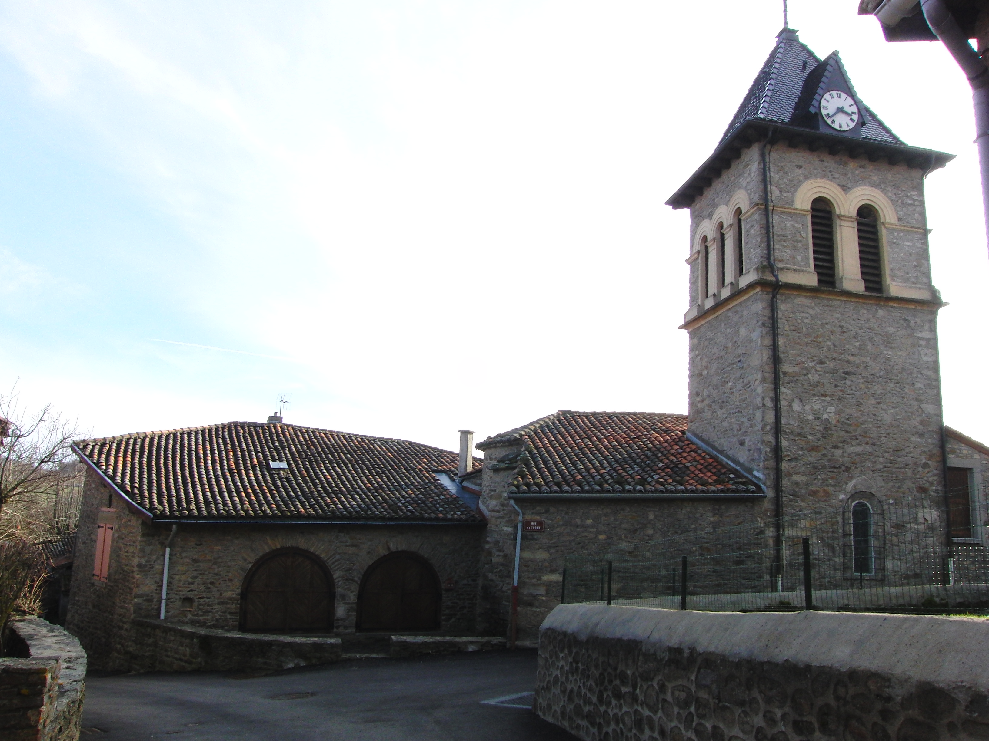 Saint-André-la-Côte church, Rhône, France